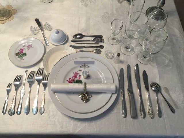 Silverware is set Parisian style (tines and bowl down). Courses: Bread would be served throughout (the bread knife is on the knife rest next to the bread plate and there are individual butter dishes with lids): Served with aperitif of sherry (sherry glass): Caviar amuse bouche (mother of pearl caviar spoon) Escargot hors-d'oeuvre (escargot fork; escargot tongs served with plate) Shrimp cocktail (cocktail fork) Served with white wine (white wine glass): Soup course (soup spoon) Fish course (fish knife and fork; crescent shaped bone dish next to the charger) Lobster course (lobster pick; lobster cracker served with plate) Served with red wine (red wine glass): Entrée course (entree fork and knife) Palate cleanser (ice cream fork above place setting) Relevé (main) course (meat knife and fork) Salad course served at the end of the meal European style (salad fork and knife; some liberty is taken here as a real salad fork has a thicker left tine) Finger bowl service (not shown) Served with digestif of dry champagne (champagne flute): Cheese and nut course (cheese knife and nut pick) Dessert course (dessert fork and spoon; served with coffee/tea service not shown) Also included are individual crystal salt cellars with spoons and sterling silver lidded crystal pepper shakers. Table cloth and dinner napkins are Irish linen and the candlestick holders are pewter.